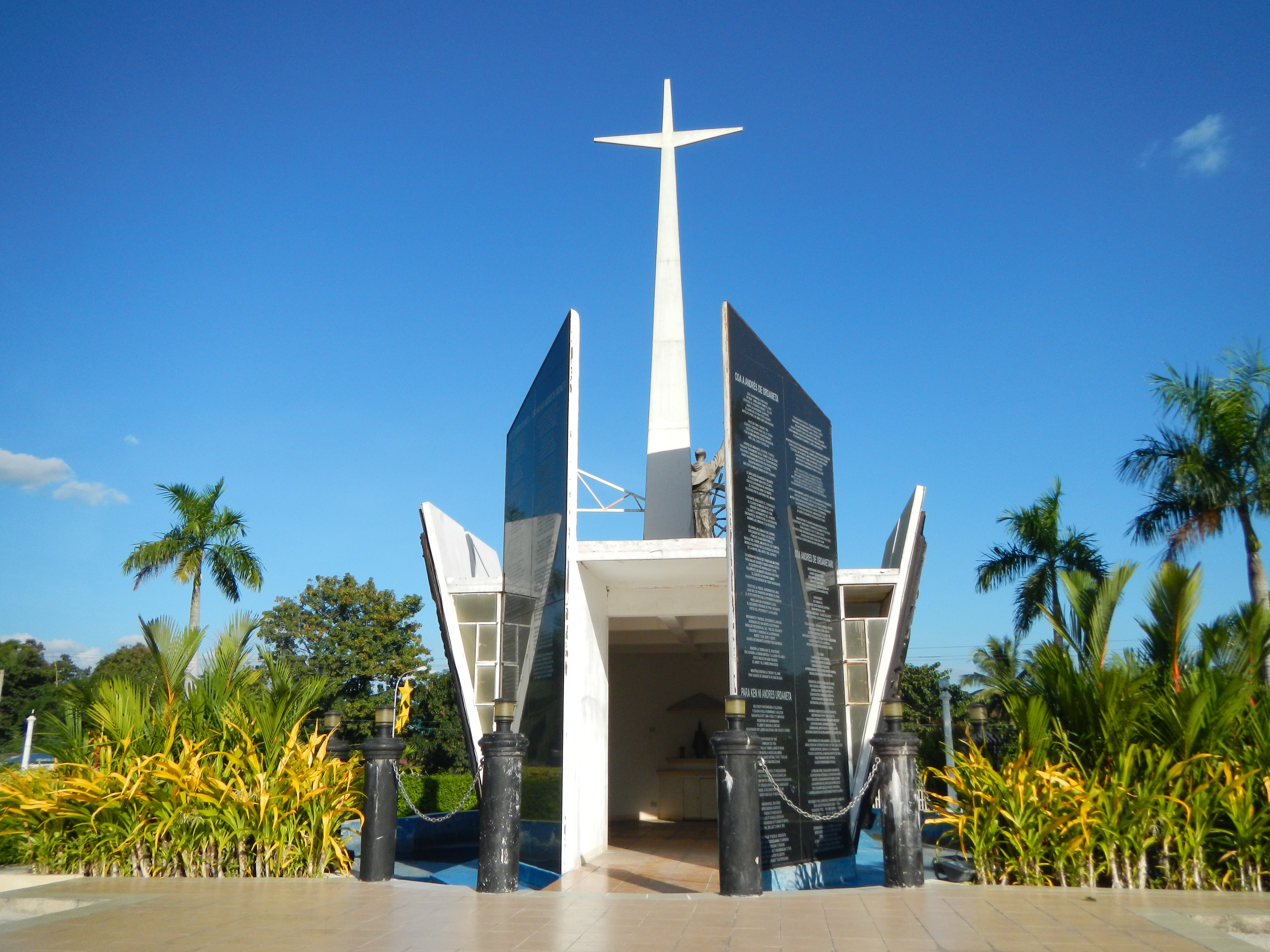 Urdaneta, Pangasinan[1]